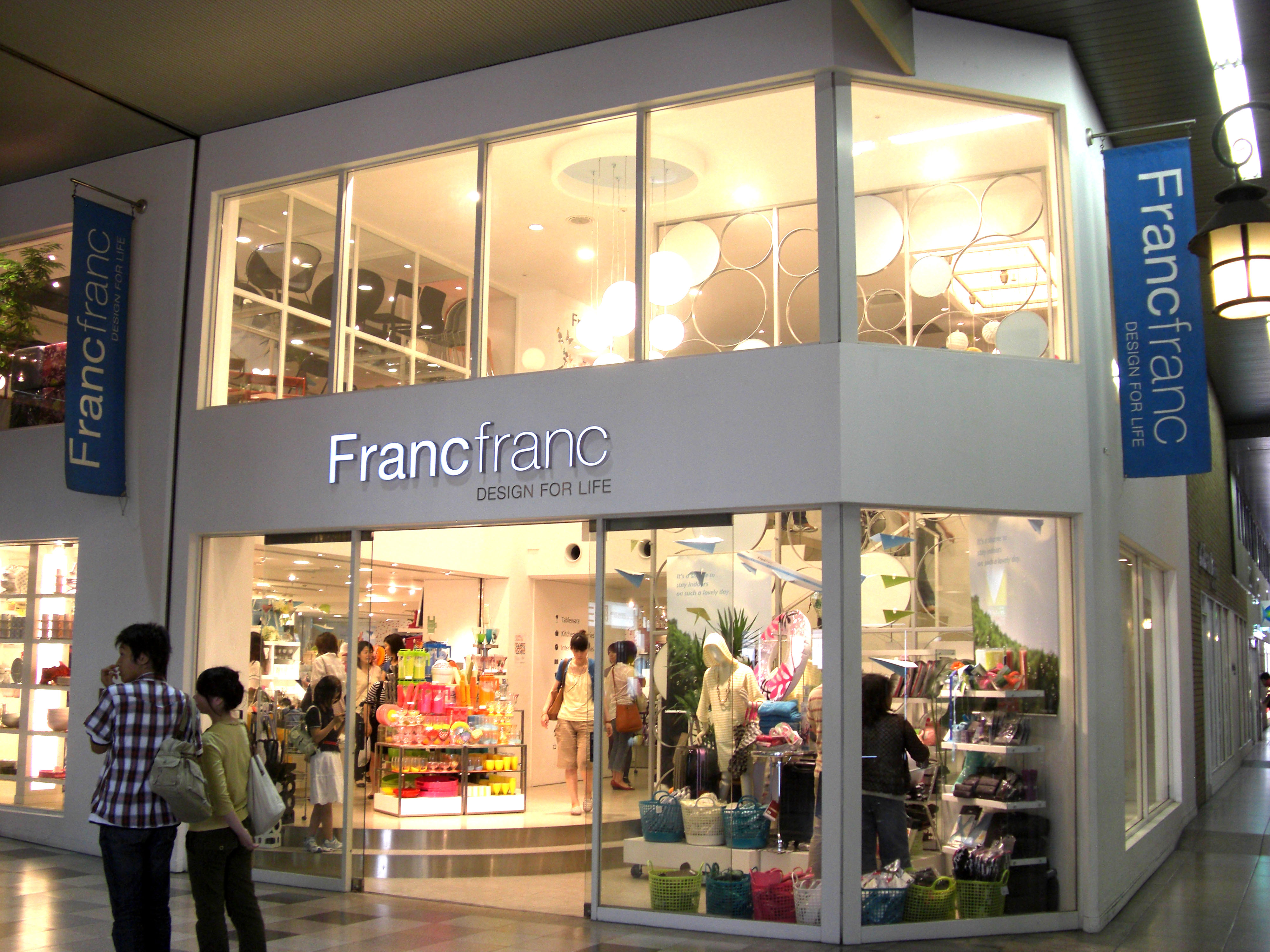 Francfranc Umeda,Shibata Kita-Ku Osaka-City Osaka Japan.